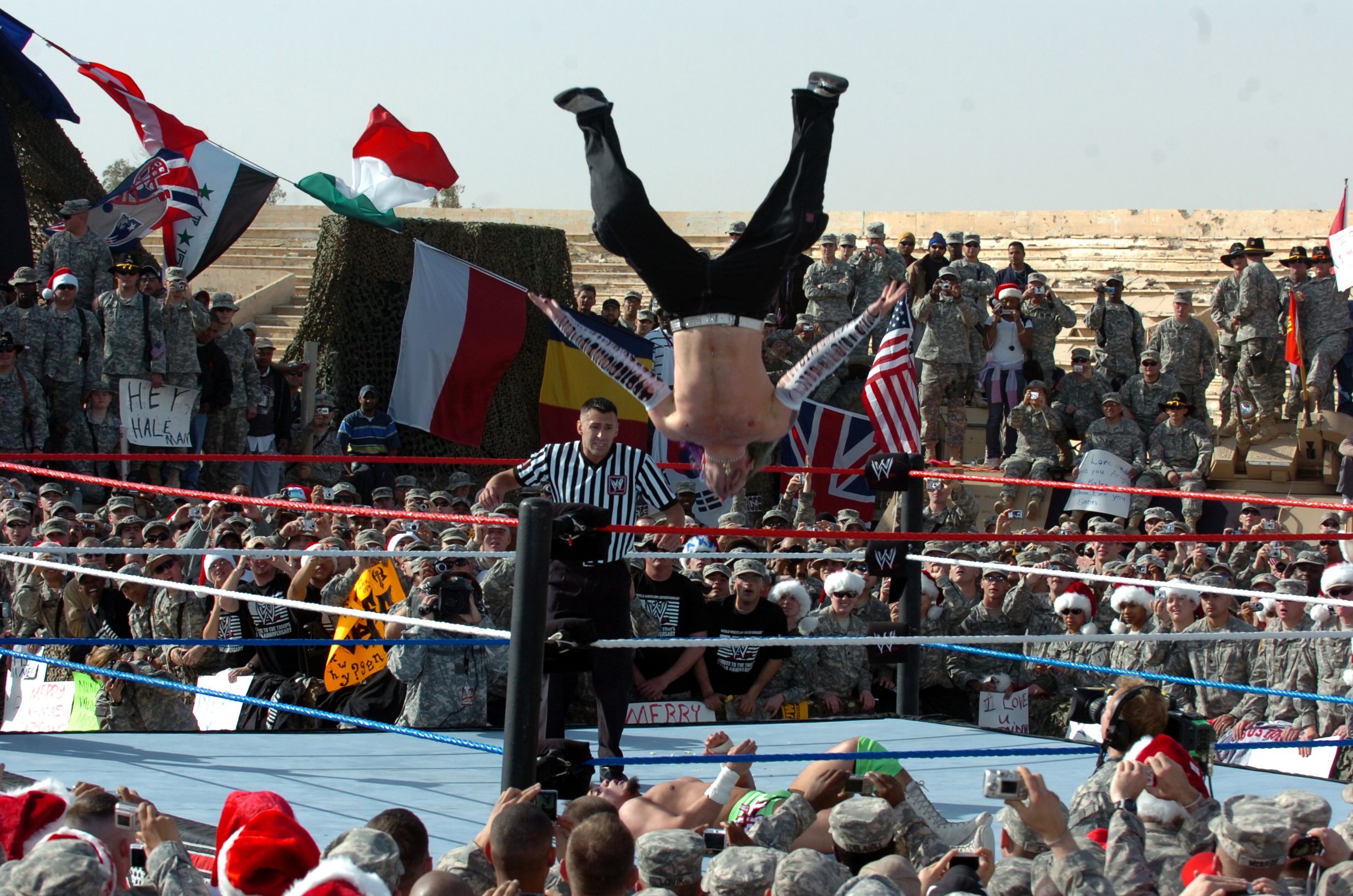 World Wrestling Entertainment wrestler Jeff Hardy performs a Swanton Bomb on WWE wrestler Carlito Orton during the second match of the 5th annual WWE Tribute to the Troops at Contingency Operating Base Speicher's stadium, Dec. 7. The three-day WWE tour consisted of visiting different units in northern Iraq, including the Combat Aviation Brigade, 1st Infantry Division, and culminated with five wrestling matches.